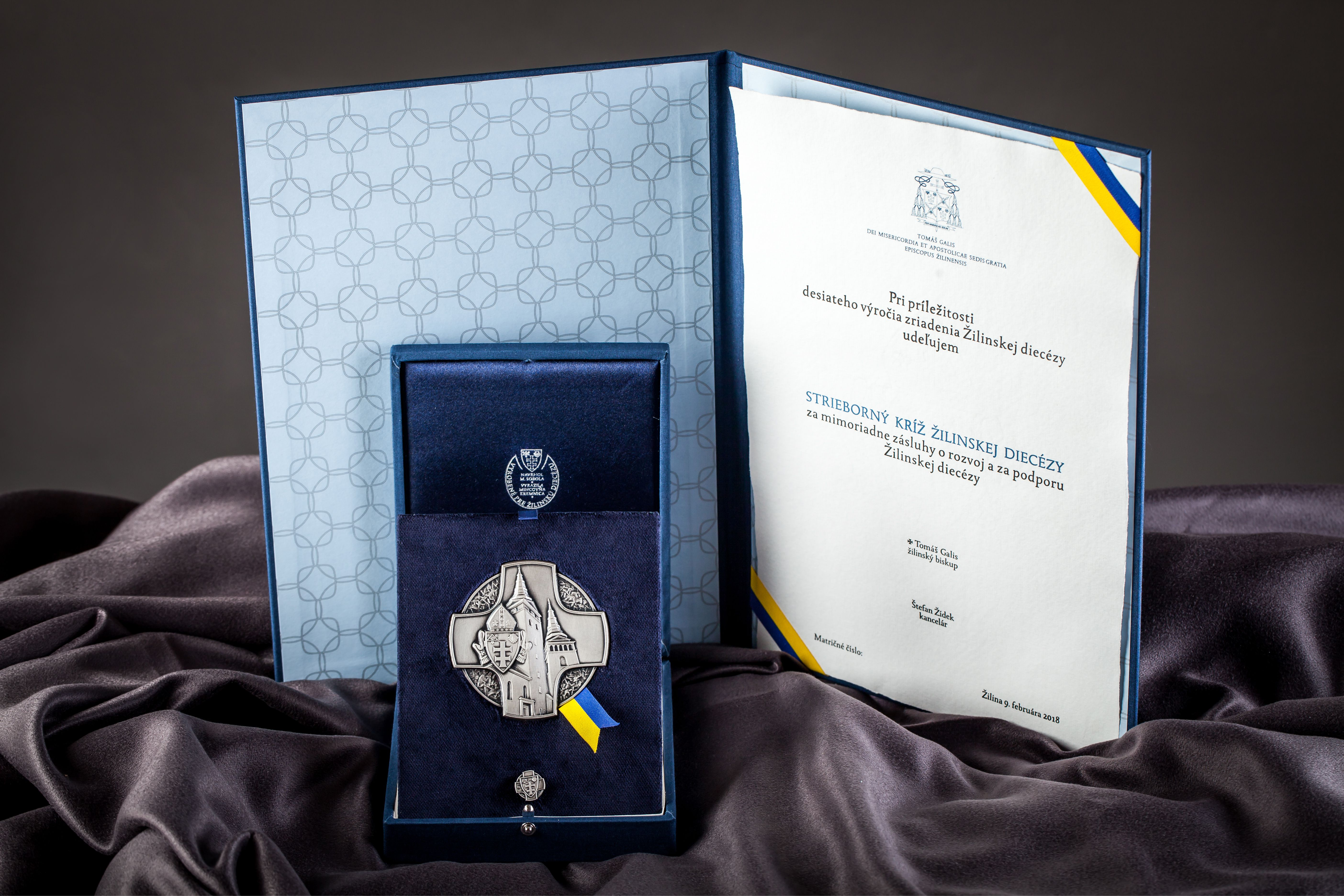 The Silver Cross of the Roman Catholic Diocese of Žilina_award of Diocese of Žilina, Slovakia